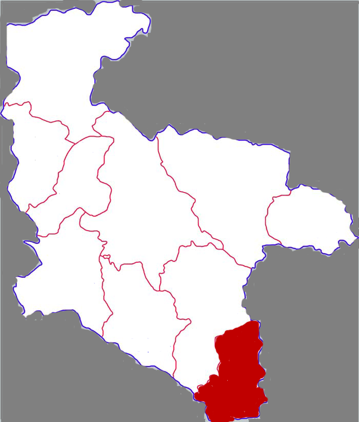 Location of Zhenping county in Ankang city, China